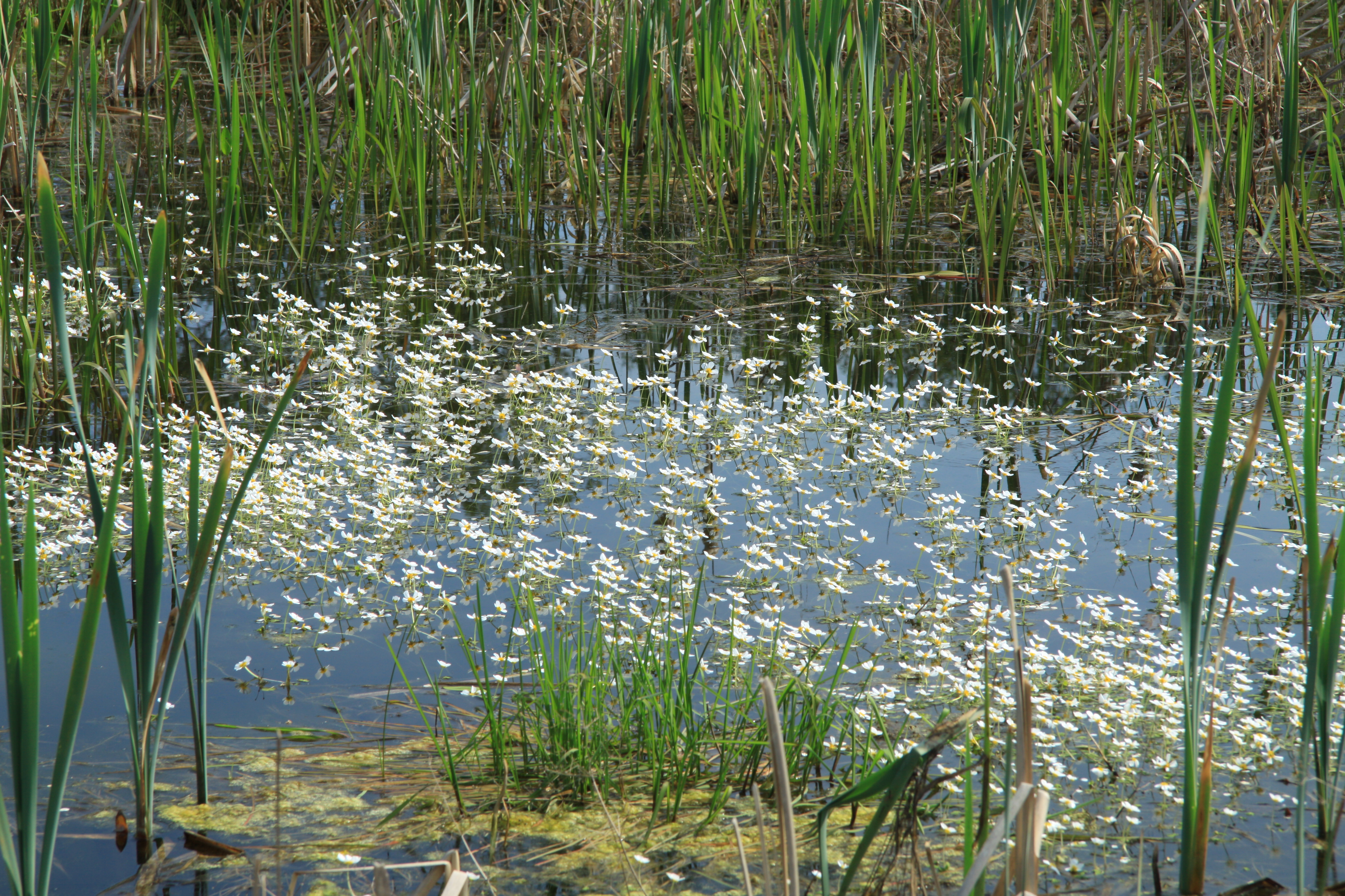 Ranunculus aquatilis. Natural monument Tůně u Hájské in Strakonice District, Czech Republic Project: Chráněná území.